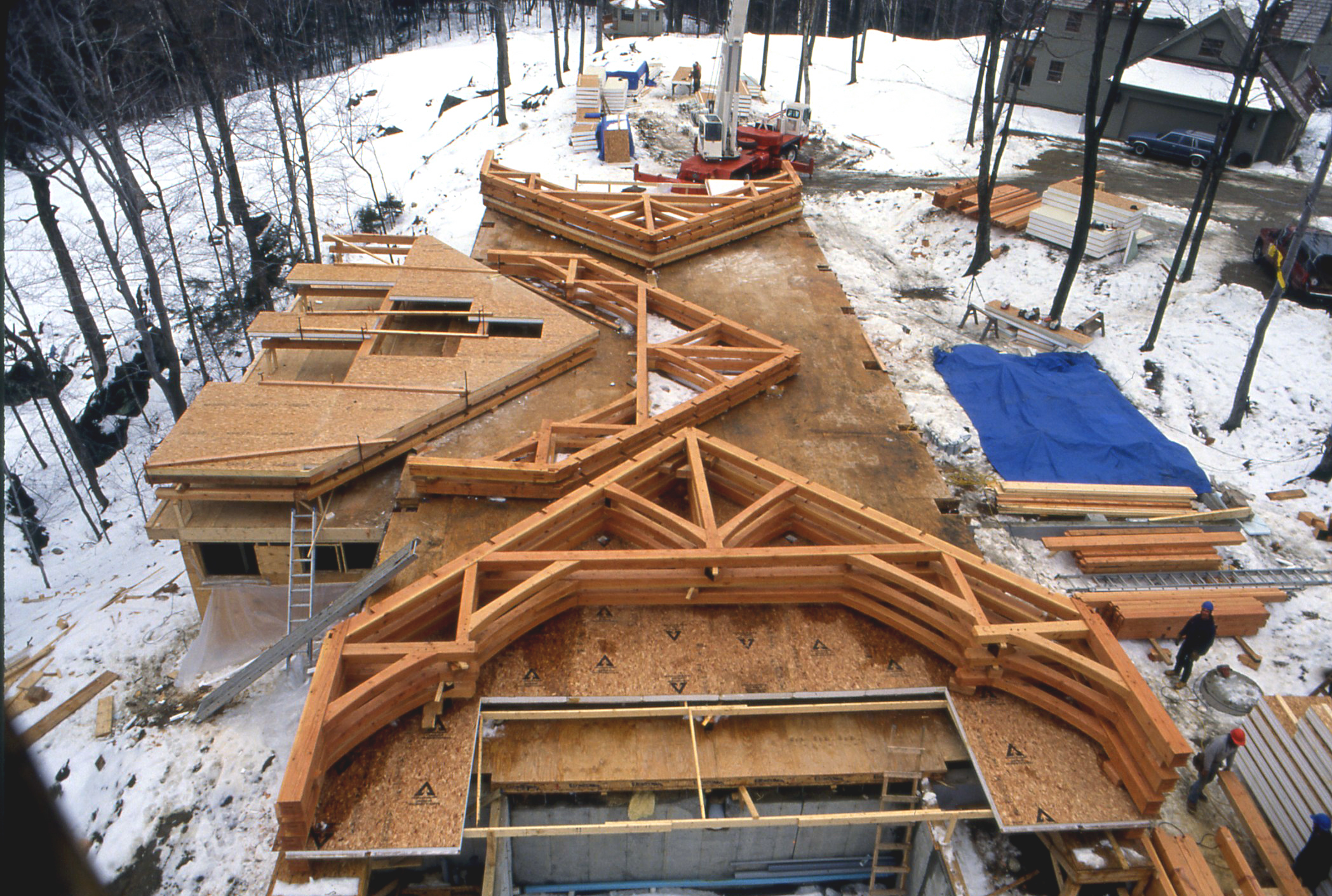 A stack of bents for a timber frame raising. Piles of insulating wall panels can be seen in the distance. The wall panels are called stress skin or curtain wall panels or structural insulated panels if they are designed to be structural.